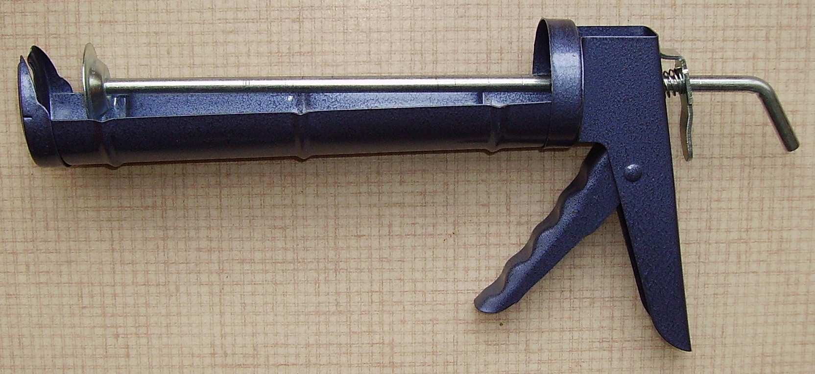 Glue gun for 310 ml aluminium or plastic cartridge packaging.